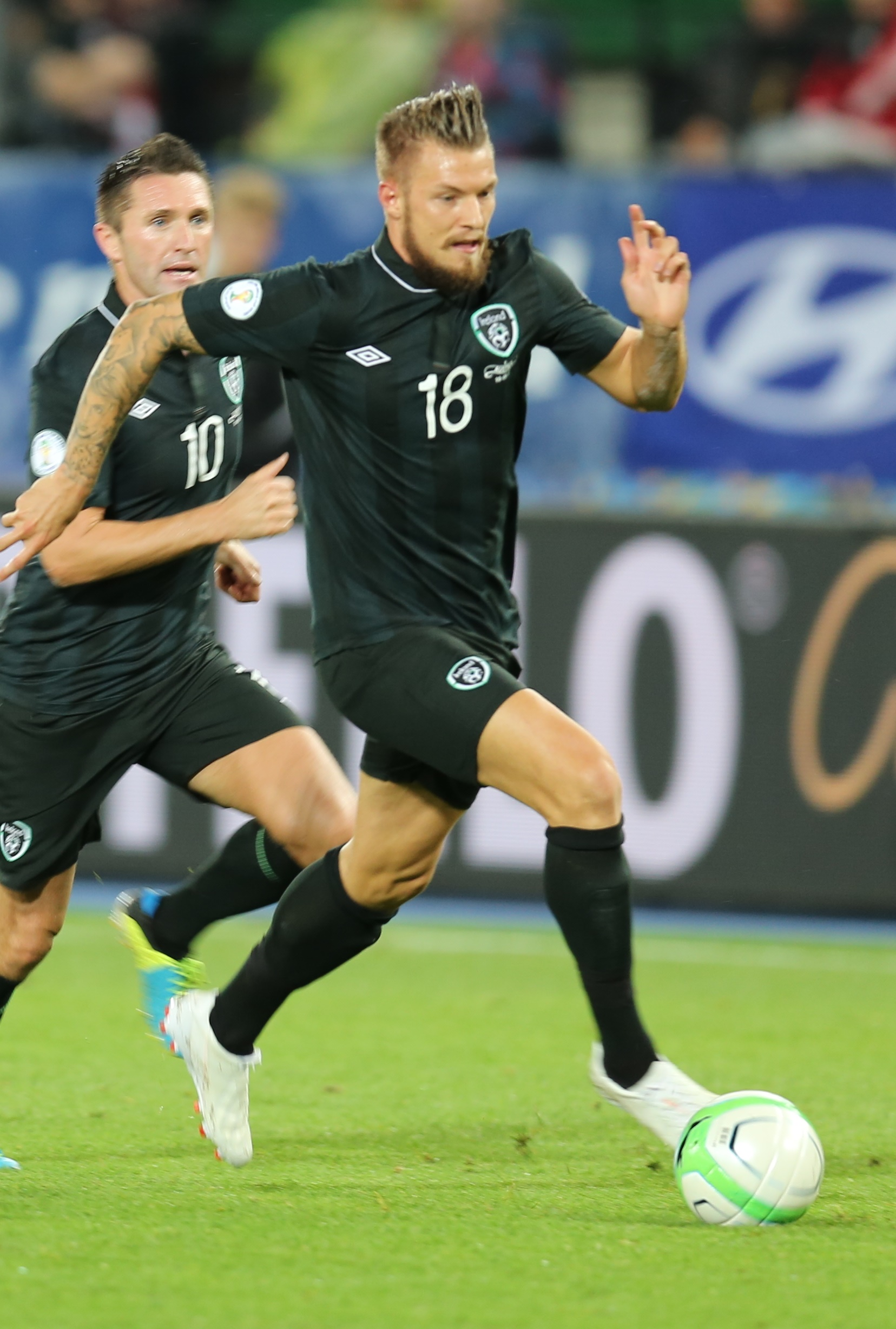 2014 FIFA World Cup qualification (UEFA), Group C: Republic of Ireland national football team at 10. September 2013 before the match against the Austria national football team (0:1) in the Ernst-Happel-Stadion in Vienna. Here:AnthonyPilkington , Irish winger. The making of this work was supported by Wikimedia Austria. For other files made with the support of Wikimedia Austria, please see the category Supported by Wikimedia Österreich.